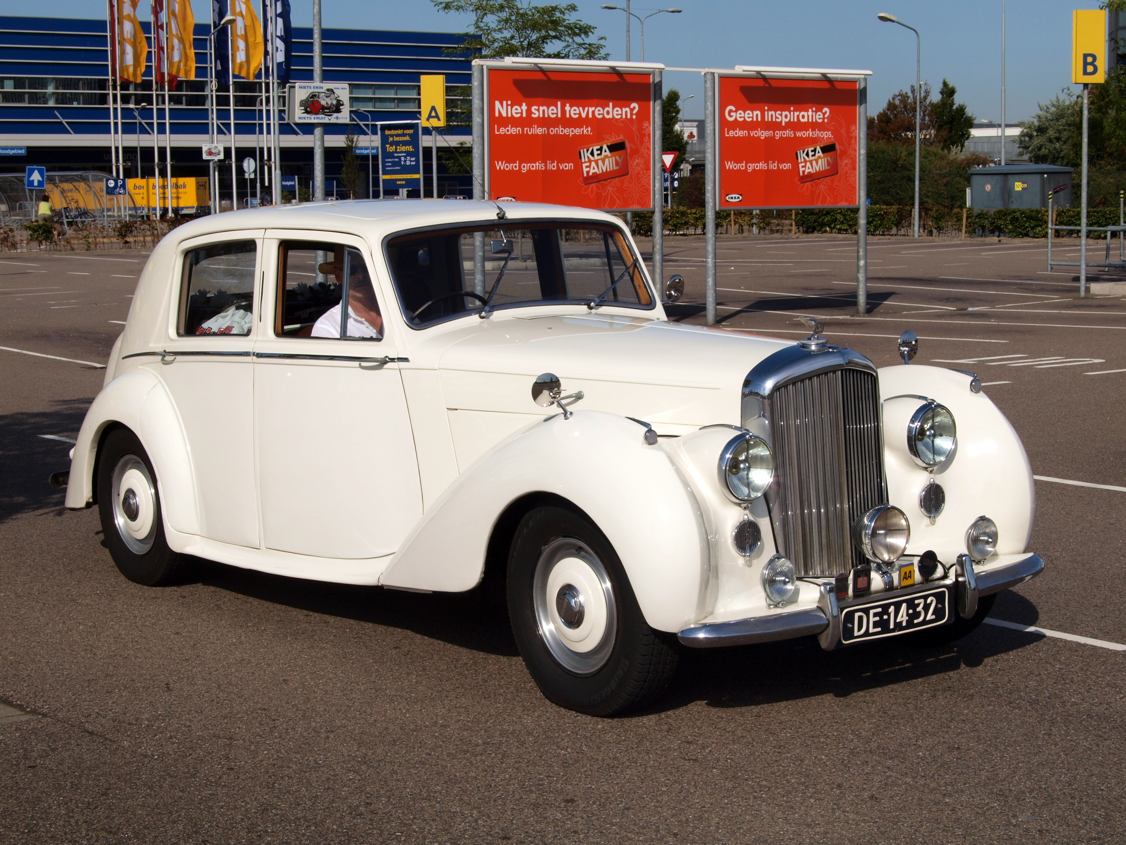 Bentley MK VI DE-14-32